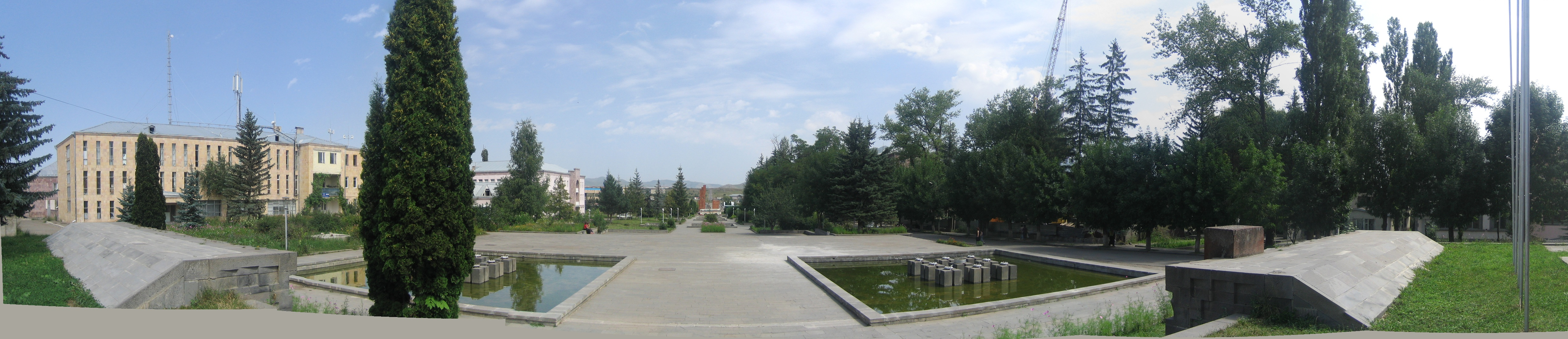 Panorama of the city center of Stepanavan, the second largest city in the Lori region of Armenia. (Picture taken from in front of the Stepan Shahumyan Museum.)